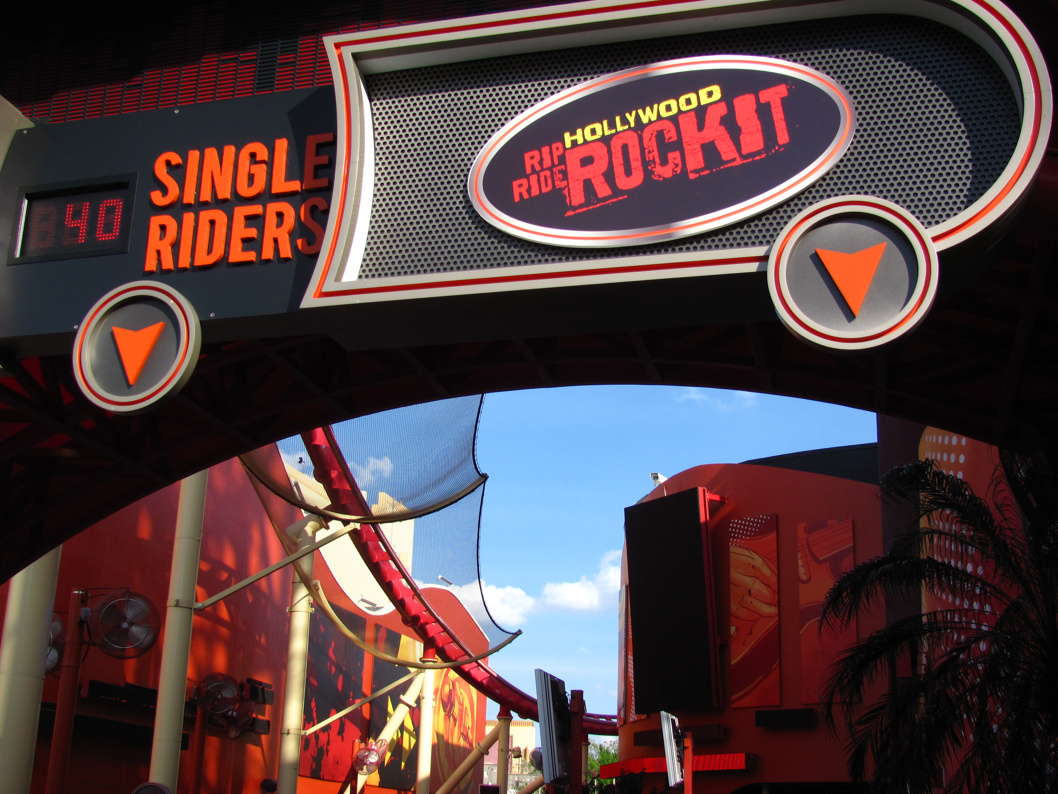 Hollywood Rip, Ride, Rocket (by the way, be careful of the single riders queue; they advertise it too openly so a ton of people pile in and it easily gets longer than the main rider queue).